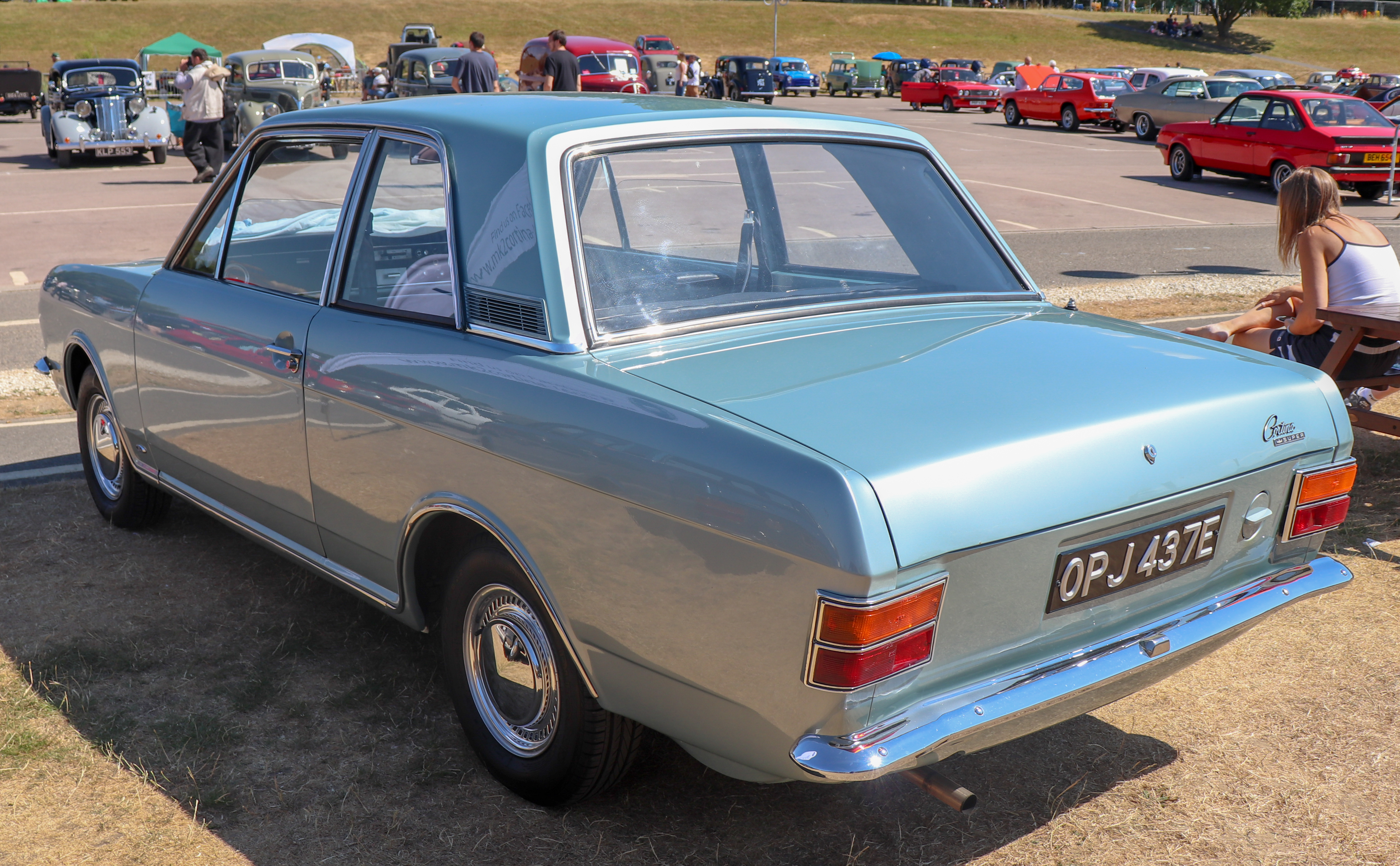 1967 Ford Cortina Super 1.5 Rear Taken at the British Motor Museum Old Ford Rally 2018, Gaydon